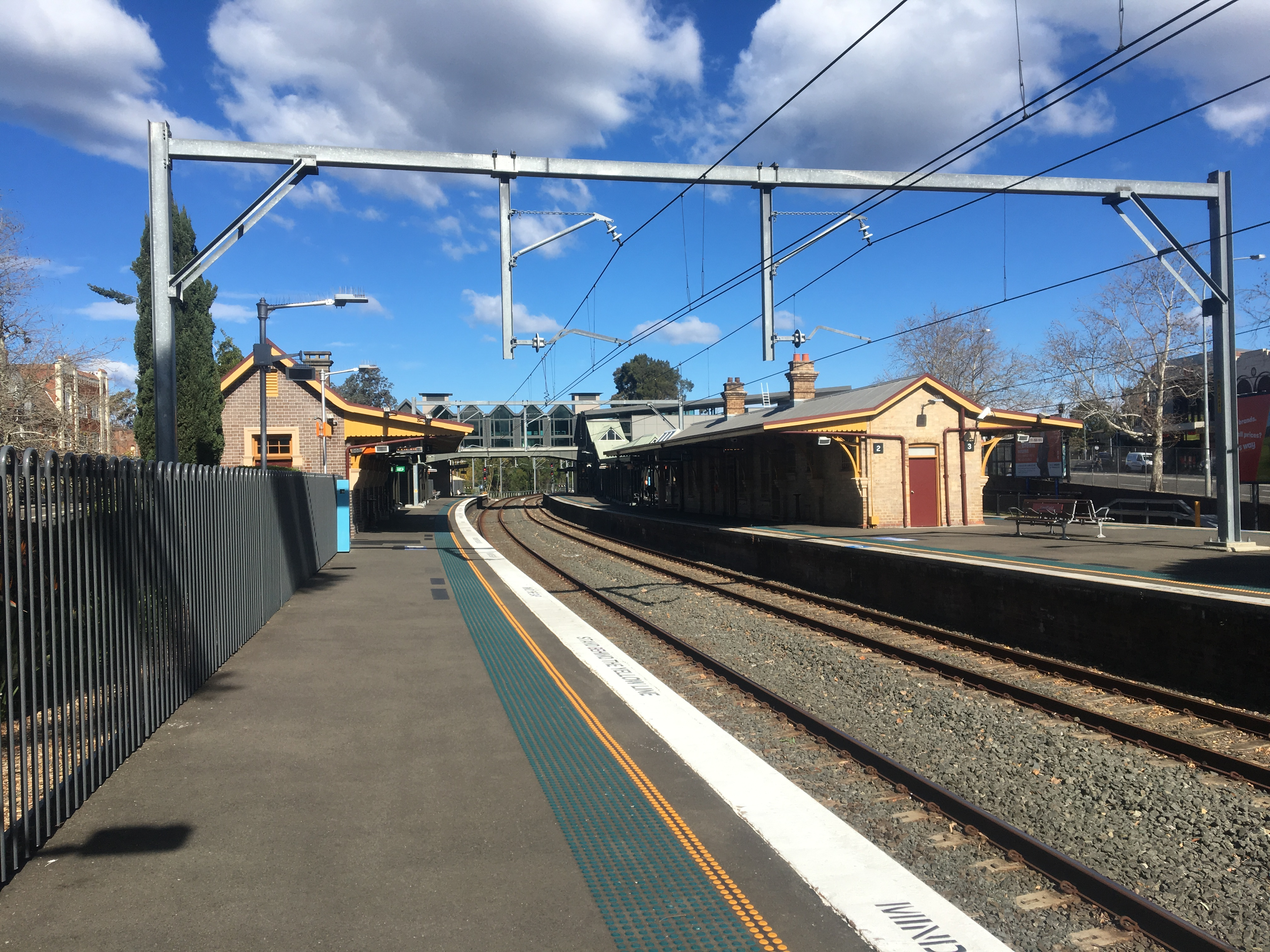 The track and platform at Lindfield railway station.